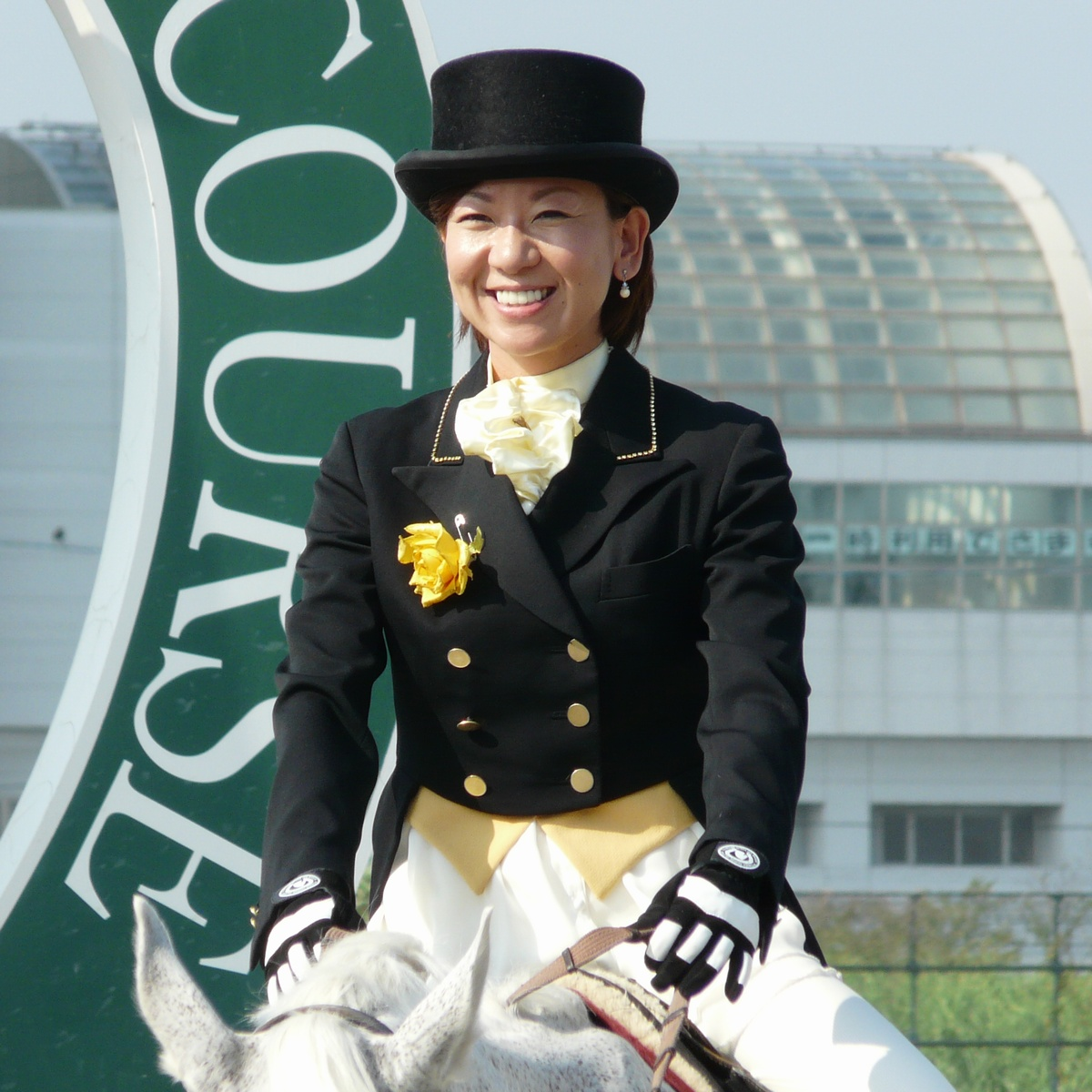 Chihiro-Akami20110815